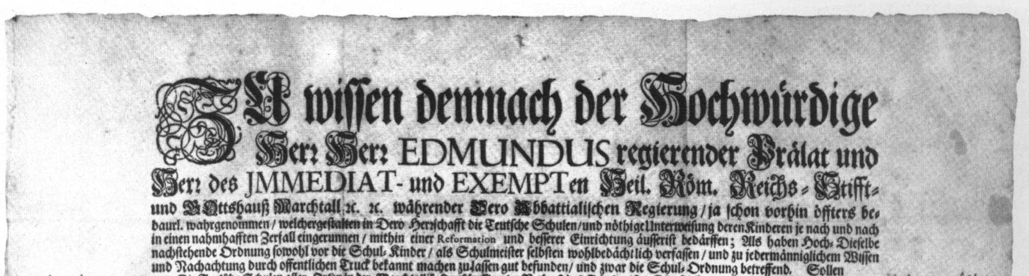 Introductory paragraph of an administrative document dated 1748 by Abbot Edmund II of the Imperial Abbey of Marchtal (also Marchthal, Obermarchtal) in Swabia. The words IMMEDIAT and EXEMPT are emphasized to stress the fact that the abbey is an Imperial Estate, and therefore immediate to the Empire and Emperor (Reich und Kaiser) and exempt from any external judicial jurisdiction. Like some 40 other Imperial abbots and abbesses of the Holy Roman Empire, the Abbot of Marchtal had seat and voice in the Imperial Diet, where he sat on the Bench of the Prelates of Swabia. Cropped from a Commons document: File:Schulordnung Marchtal 1748.jpg